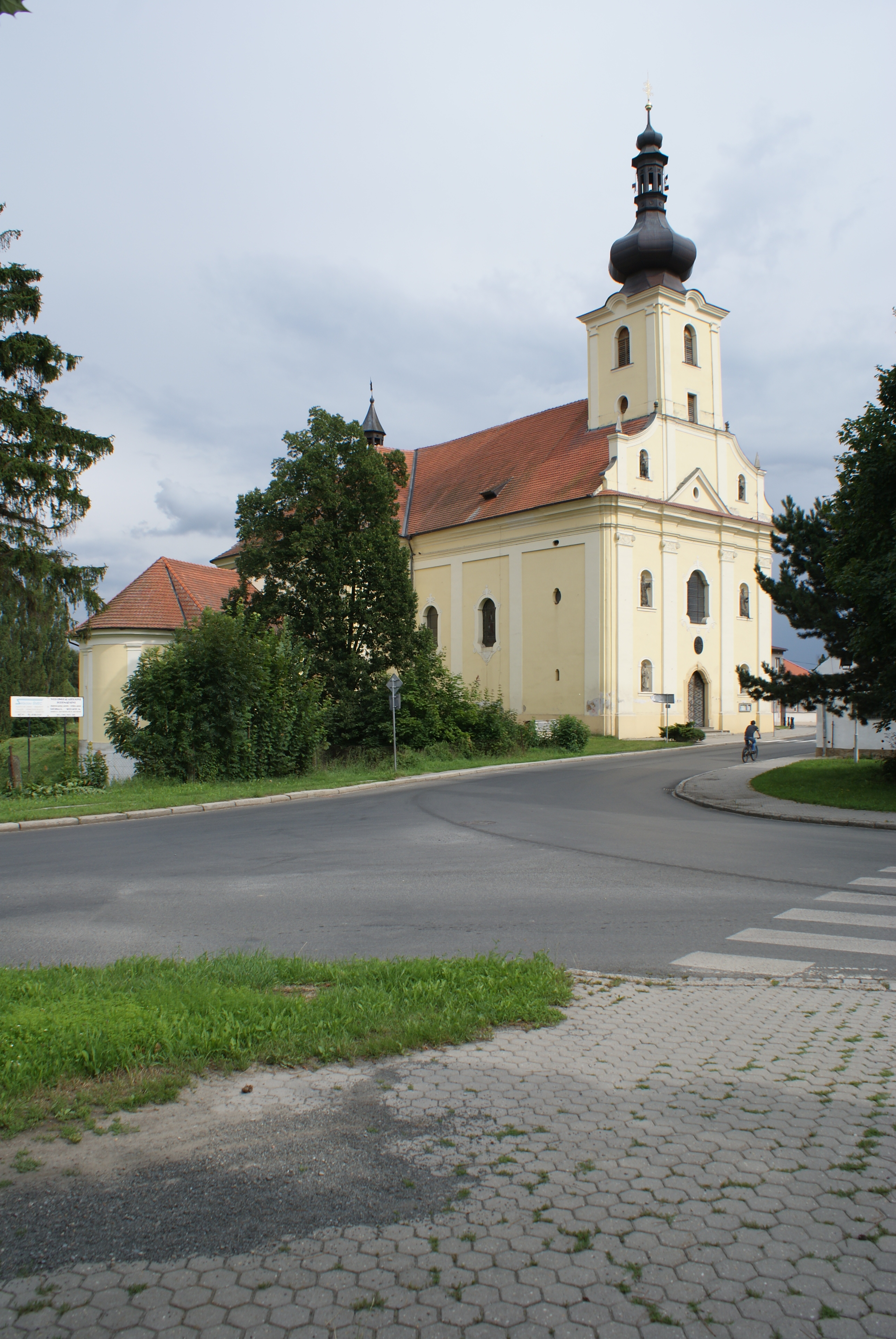 Blovice, a town in Plzeň-jih district, Czech Republic. Church of St John the Evangelist.